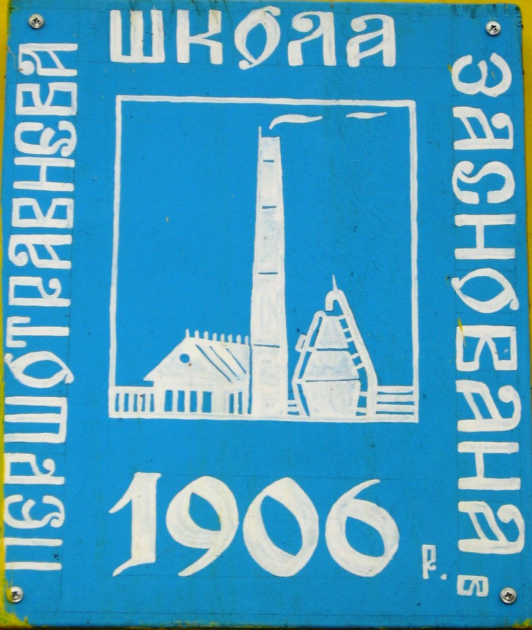 Scholl of Sloboda, Ukraine - 100 th anniversary plaque